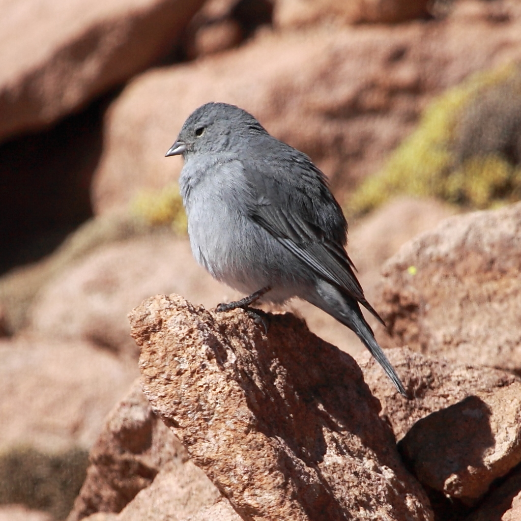 Plumbeous Sierra Finch at Rio Machuca, San Pedro de Atacama, Chile